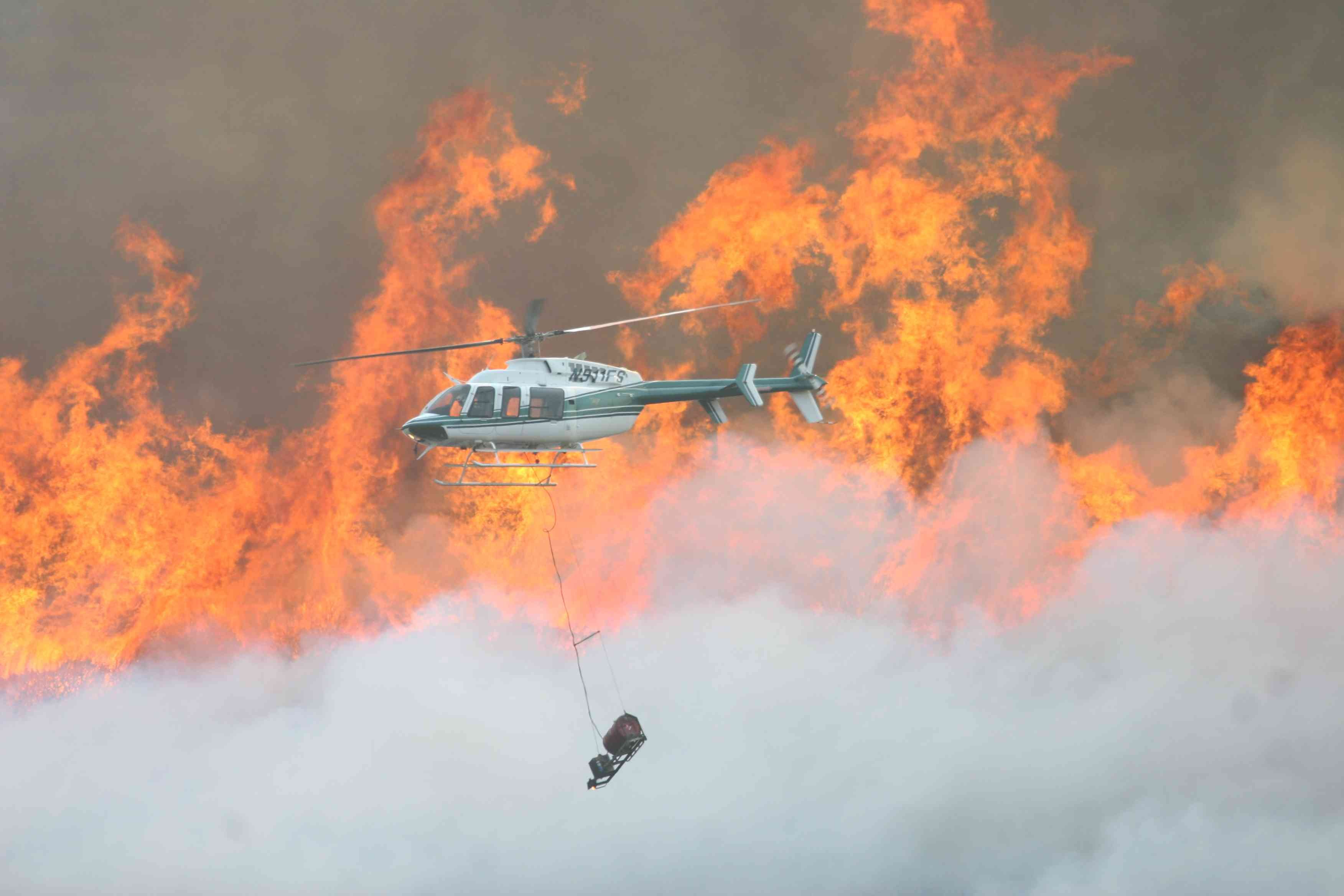 helitorch